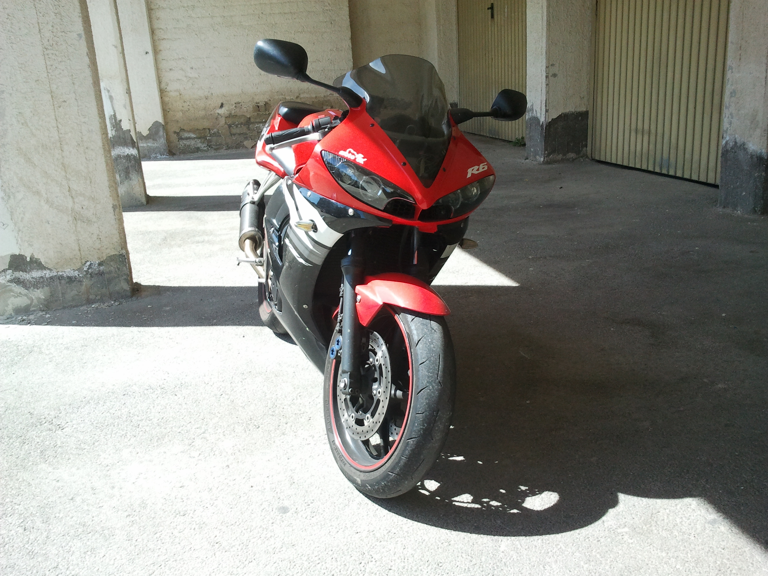 2004 Yamaha R6